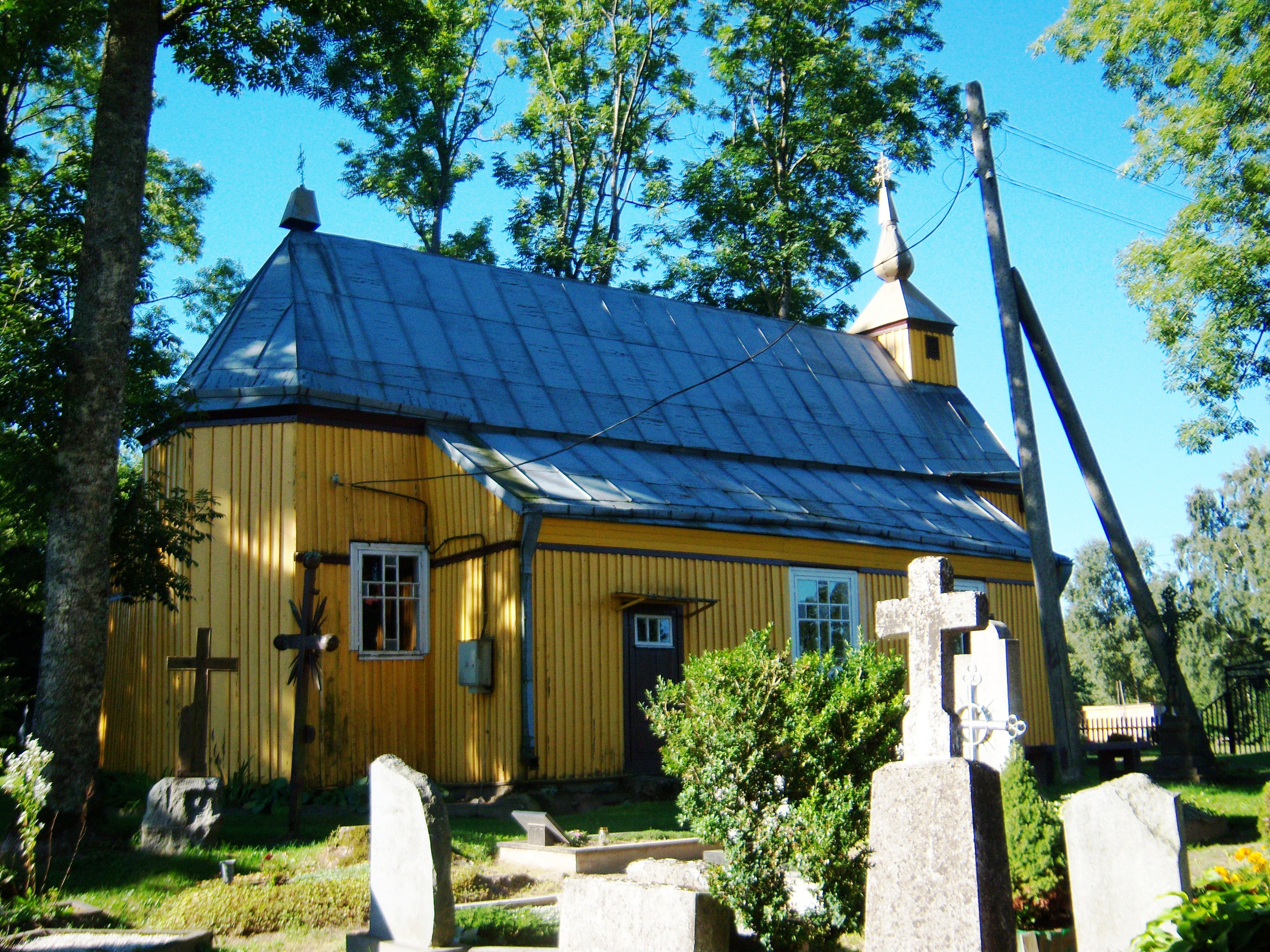 Catholic church in Sutkai (old), Šakiai District, Lithuania